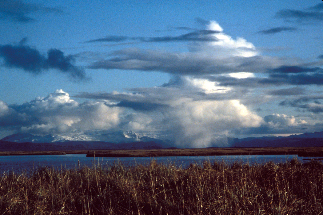 Landscape, Alaska Peninsula National Wildlife Refuge